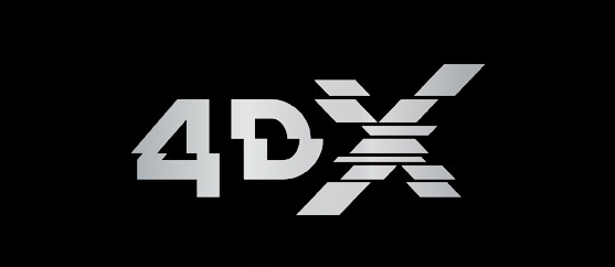 The official logo for the company.